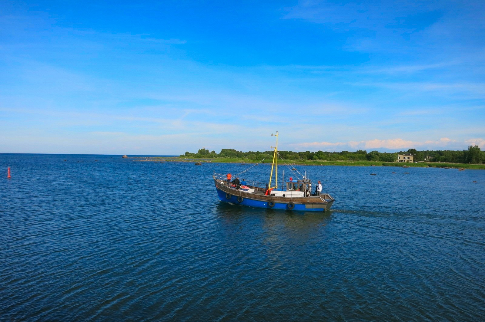 A view from Leppneeme Harbour to east. The old trawler made pleasure trips on Gulf of Finland during 2016 Midsummer party. (Viimsi Parish, Harju County, Estonia)